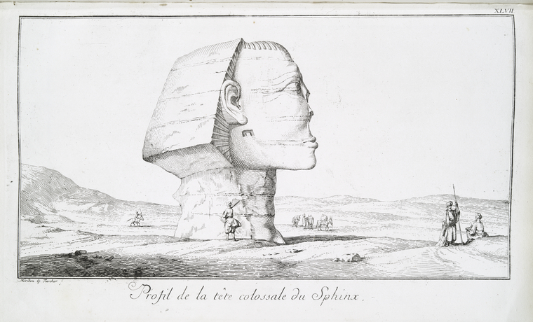 The Great Sphinx of Giza in Frederic Louis Norden's, Voyage d'Égypte et de Nubie (1755)